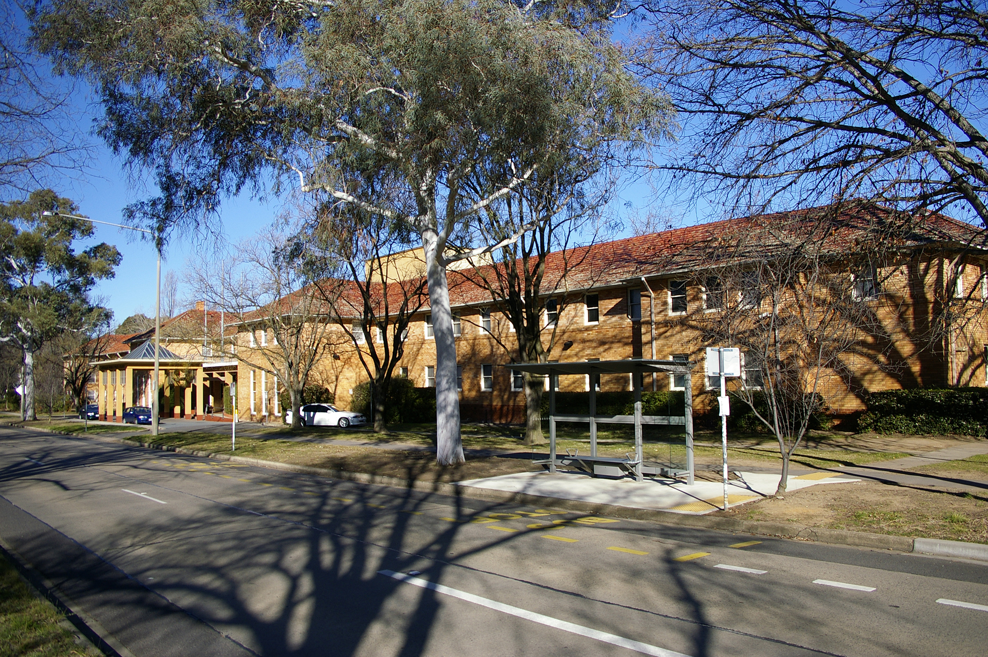 Australian Federal Police College in Barton, ACT.